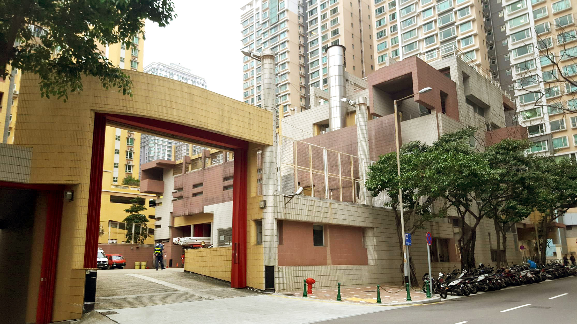 Taipa Fire Station